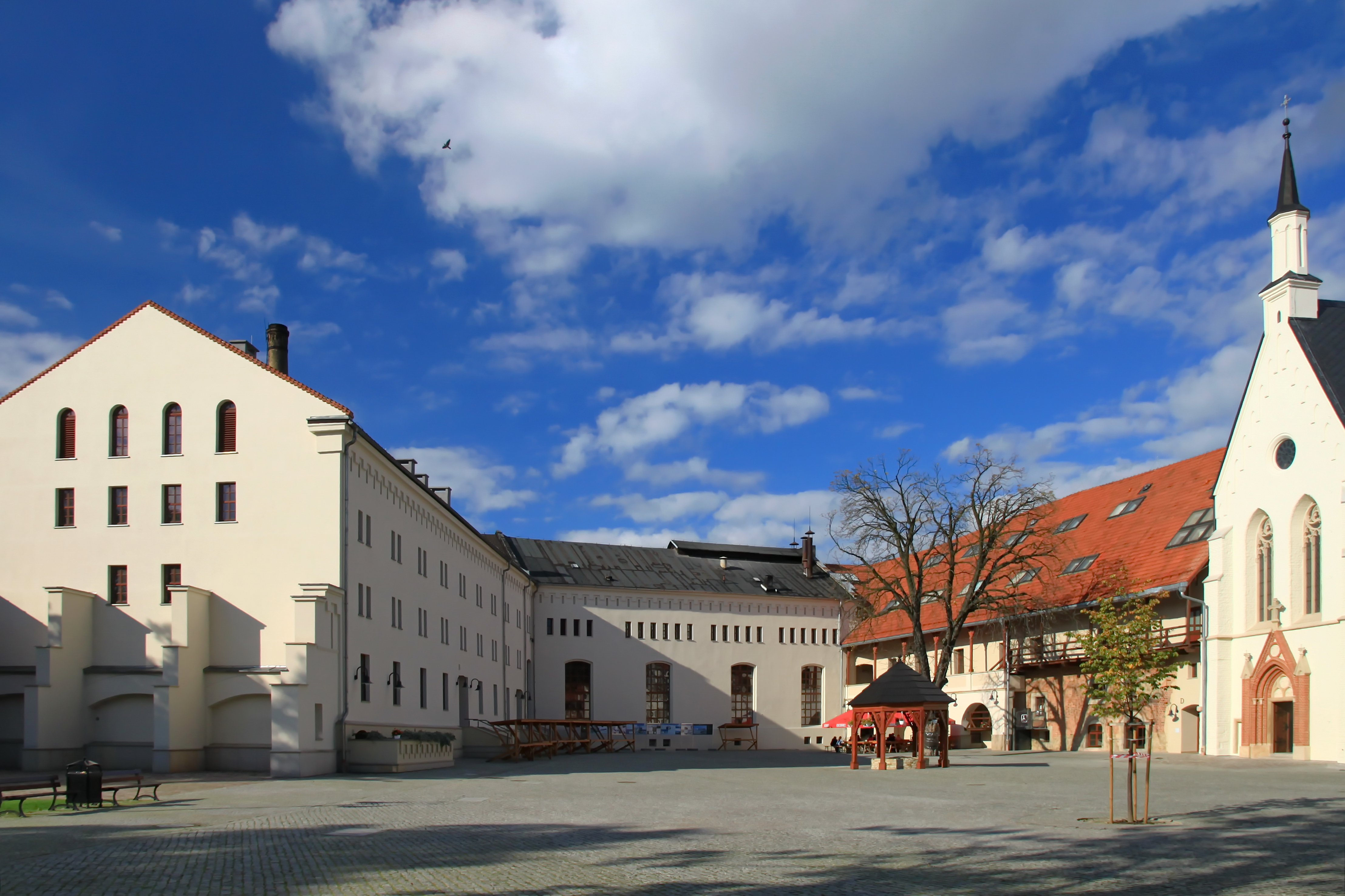 Racibórz, castle, build in 13th/14th century